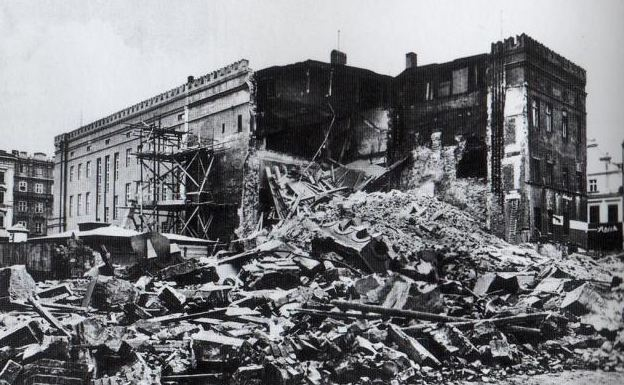 Collapse of the town hall in Opole